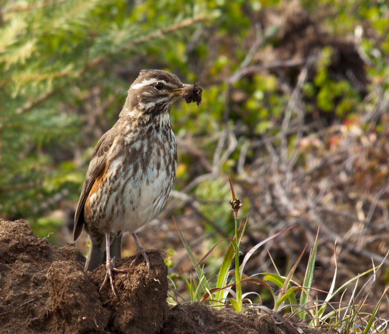 Turdus iliacus, Jarðlengja, Iceland.